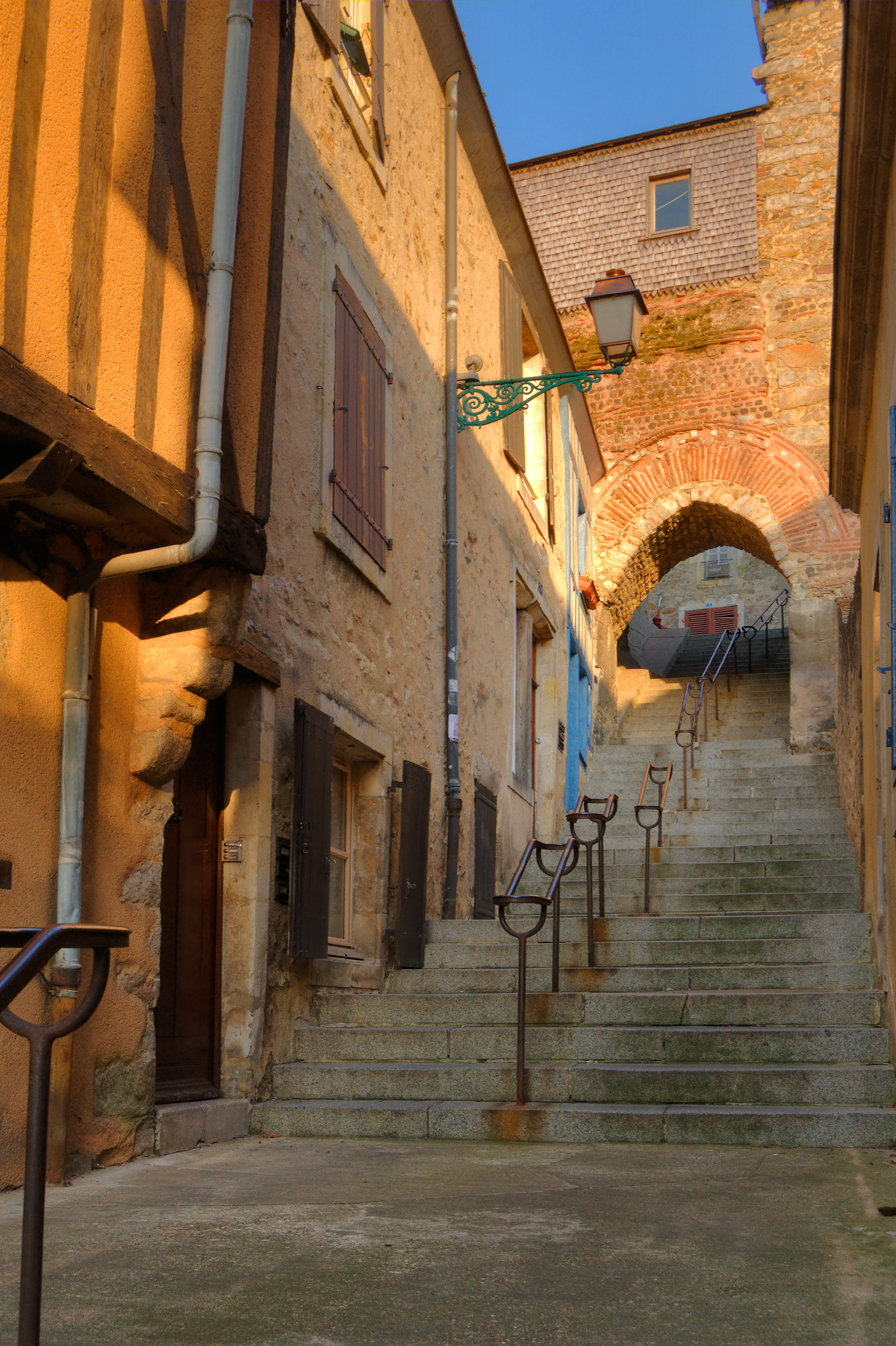 Old alley in Le Mans, France Camera: Nikon D90 Lens: Nikkor AF-S DX Zoom-Nikkor 18-55 mm 1:3,5-5,6G ED